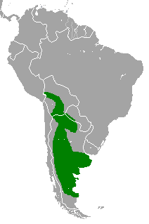 Calomys musculinus range map Source